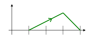 Skierowana Liczba Rozmyta przekształcona do postaci klasycznej - uproszczona notacja.